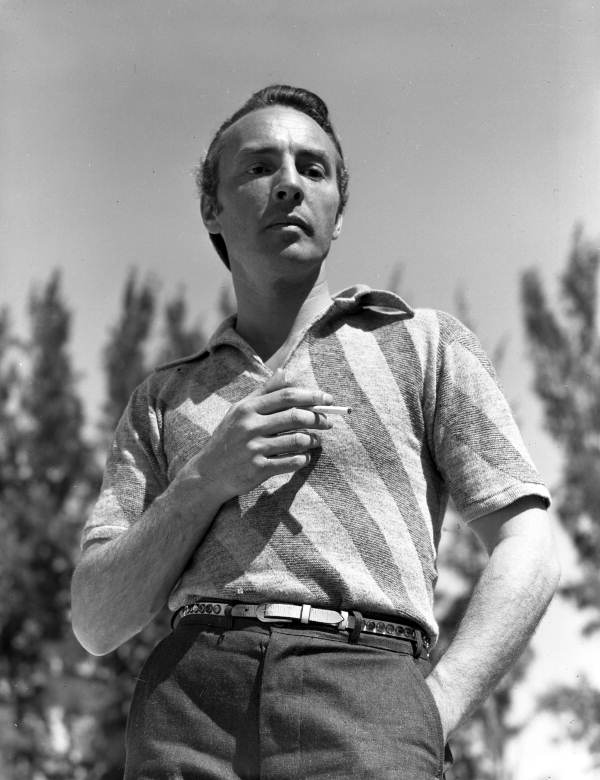 Local call number: JJS0041 Title: Portrait of Ringling Circus choreographer George Balanchine: Sarasota, Florida Date: April 1942 Accompanying note: "Director of ballet of elephants." Physical descrip: 1 photonegative - b&w - 5 x 4 in. Series Title: Joseph Janney Steinmetz Collection Repository: State Library and Archives of Florida, 500 S. Bronough St., Tallahassee, FL 32399-0250 USA. Contact: 850.245.6700. Persistent URL